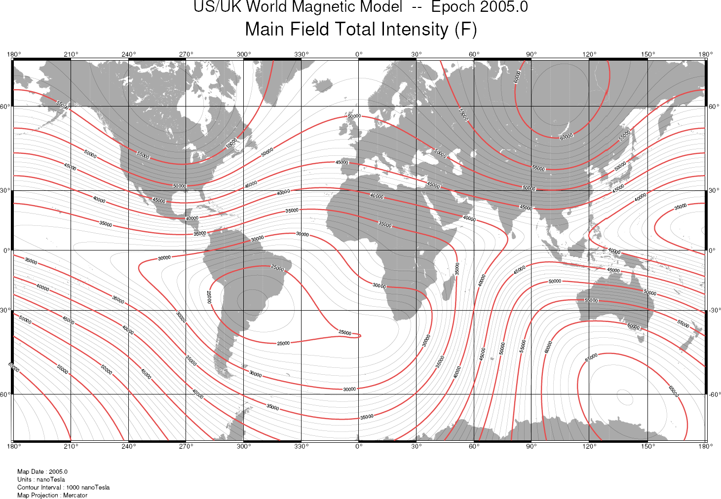 Earth magnetic field strength